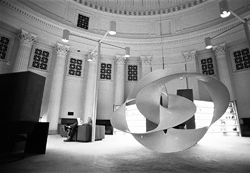 MIT Barker Engineering Library